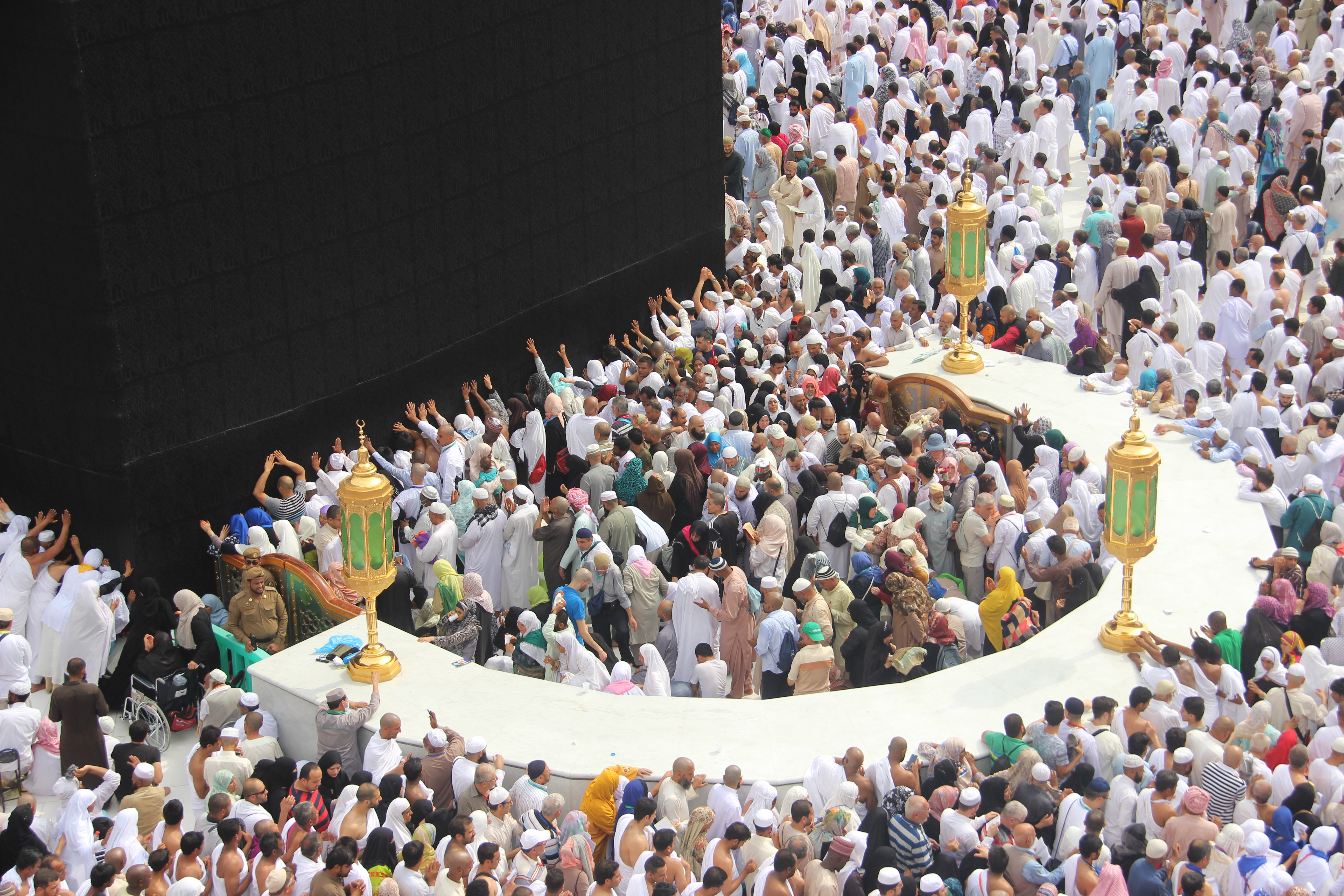 Hajr Ismail, Makkah